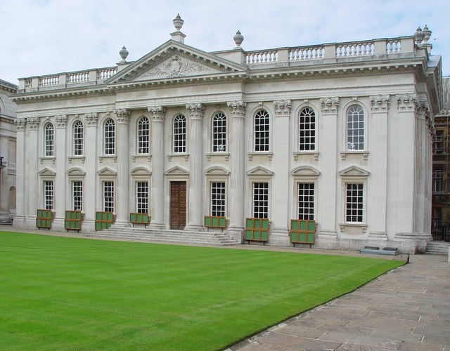 The Senate House General Admission to the University of Cambridge by the awarding of degrees is performed in this lovely 18th century building. The small green notice boards are used for the announcement of examination results.